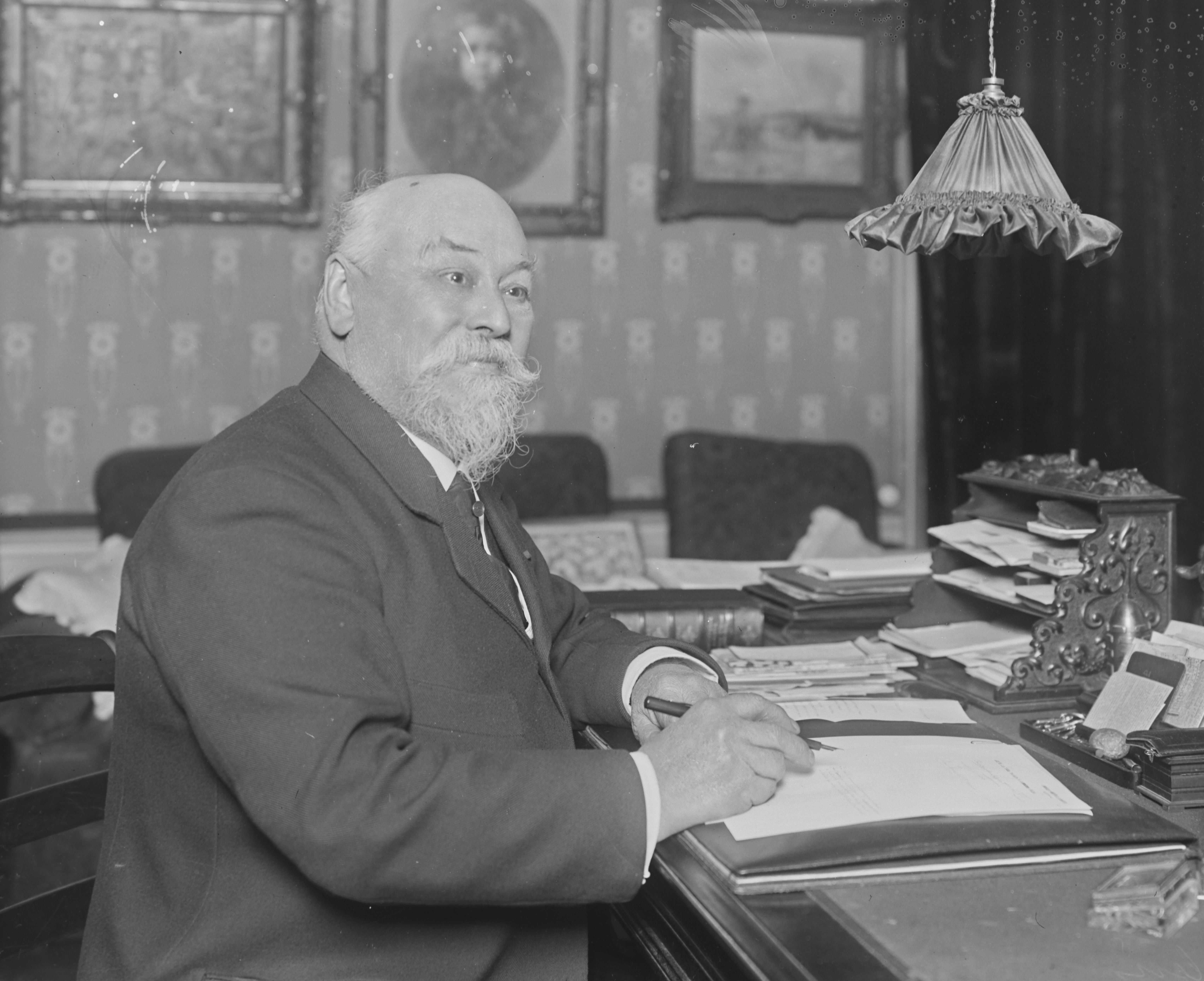 The Occitan doctor and politician Jacques Amédée Doléris in 1922